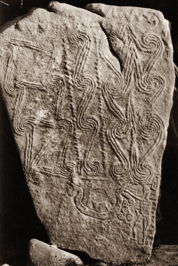 Stolovatetz stellae Razlog Museum Bulgaria